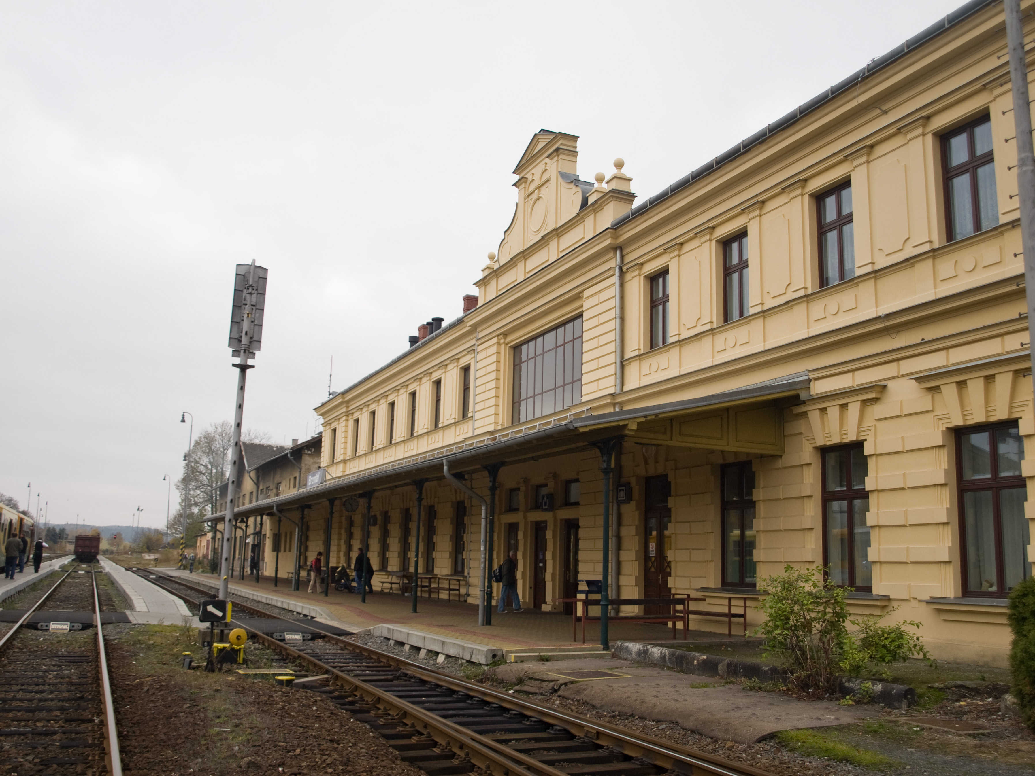 Train station Bruntál, railway track n. 312 Bruntál – Světlá Hora – Malá Morávka